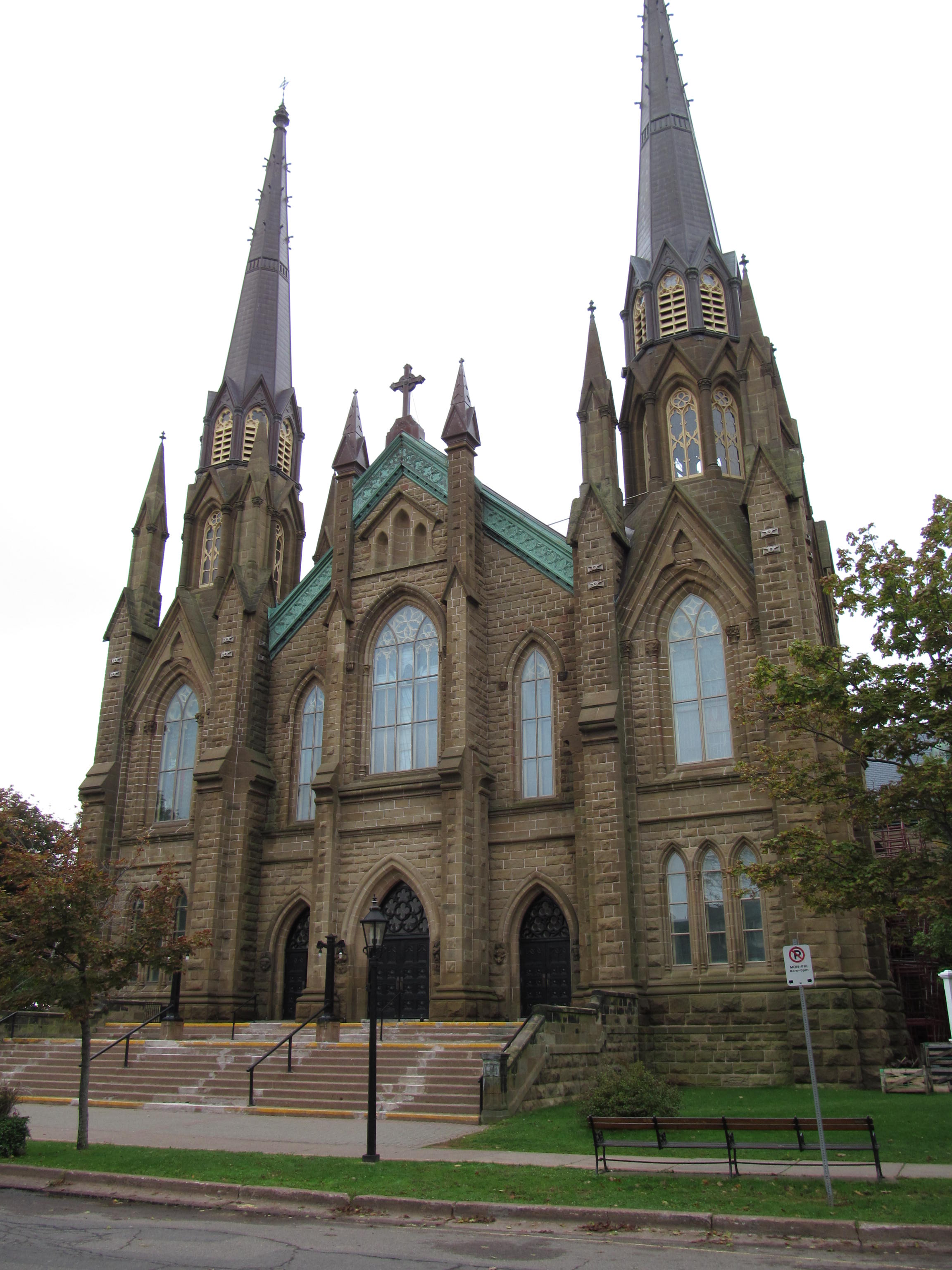 St. Dunstan's Basilica in Charlottetown, Prince Edward Island